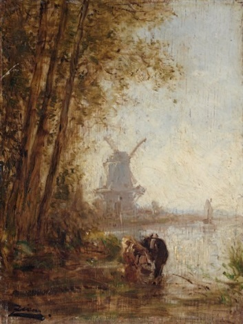 Moulin en Hollande